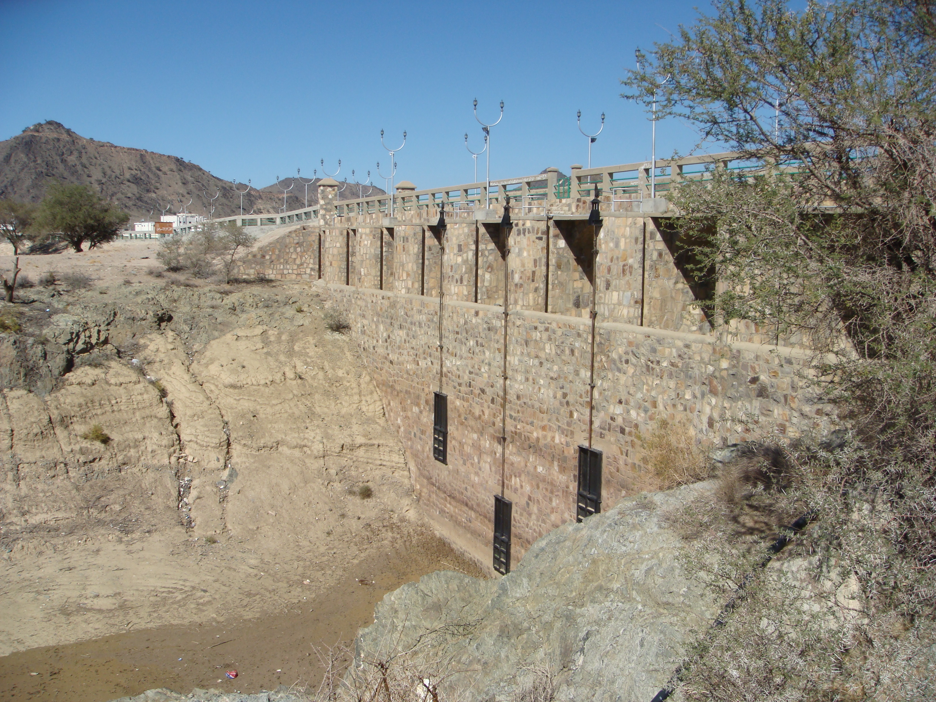 The Dam in Taif..